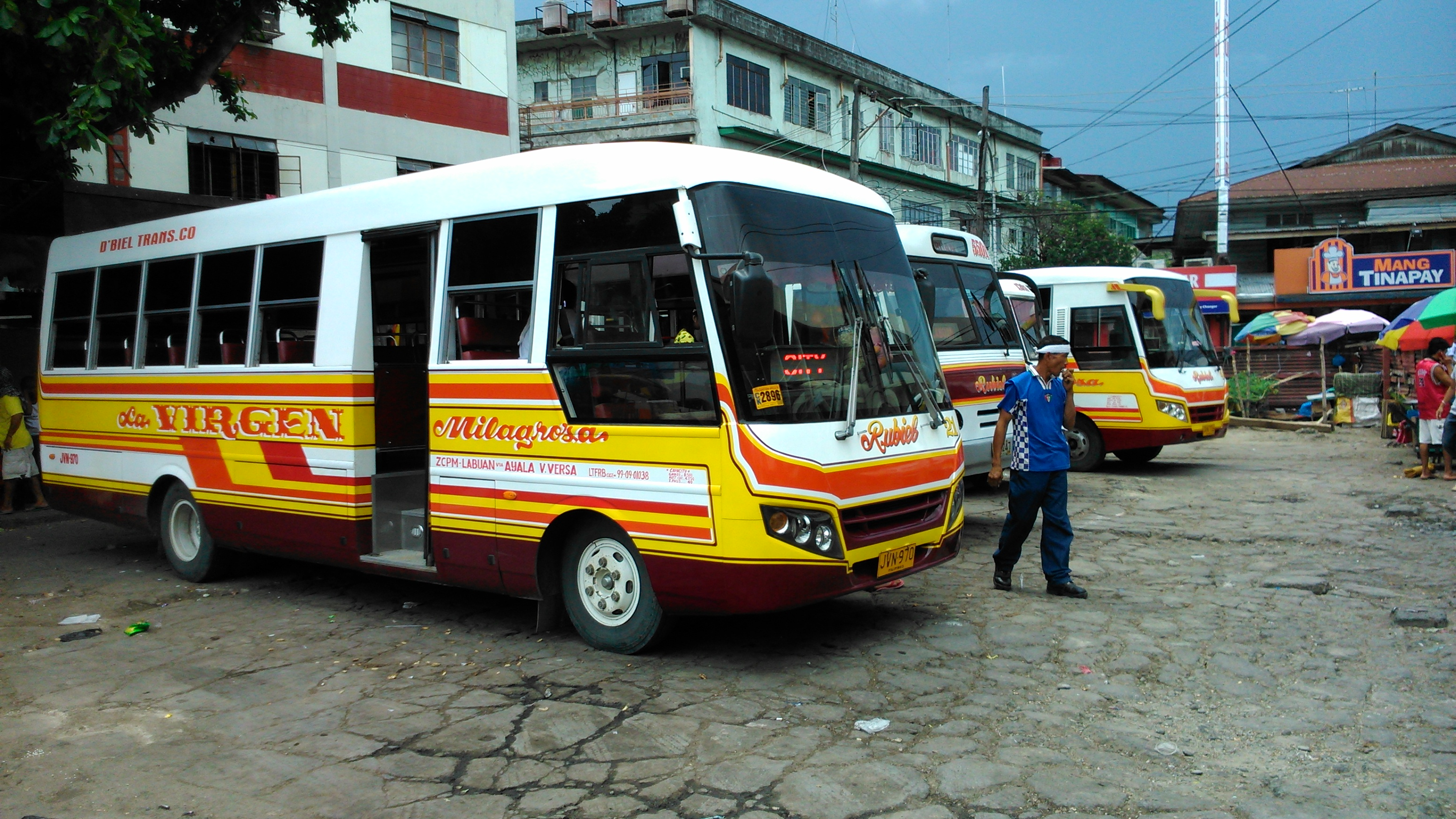 D' Biel Terminal in Magay St., Zamboanga City. Pinoy Bus Fanatic